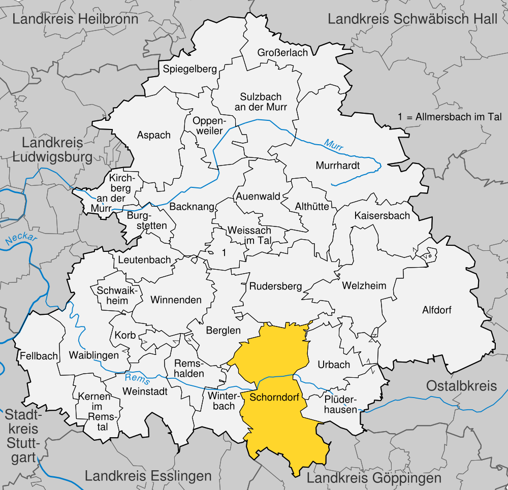 position of Schorndorf within the Rems-Murr-Kreis, Baden-Württemberg, Germany